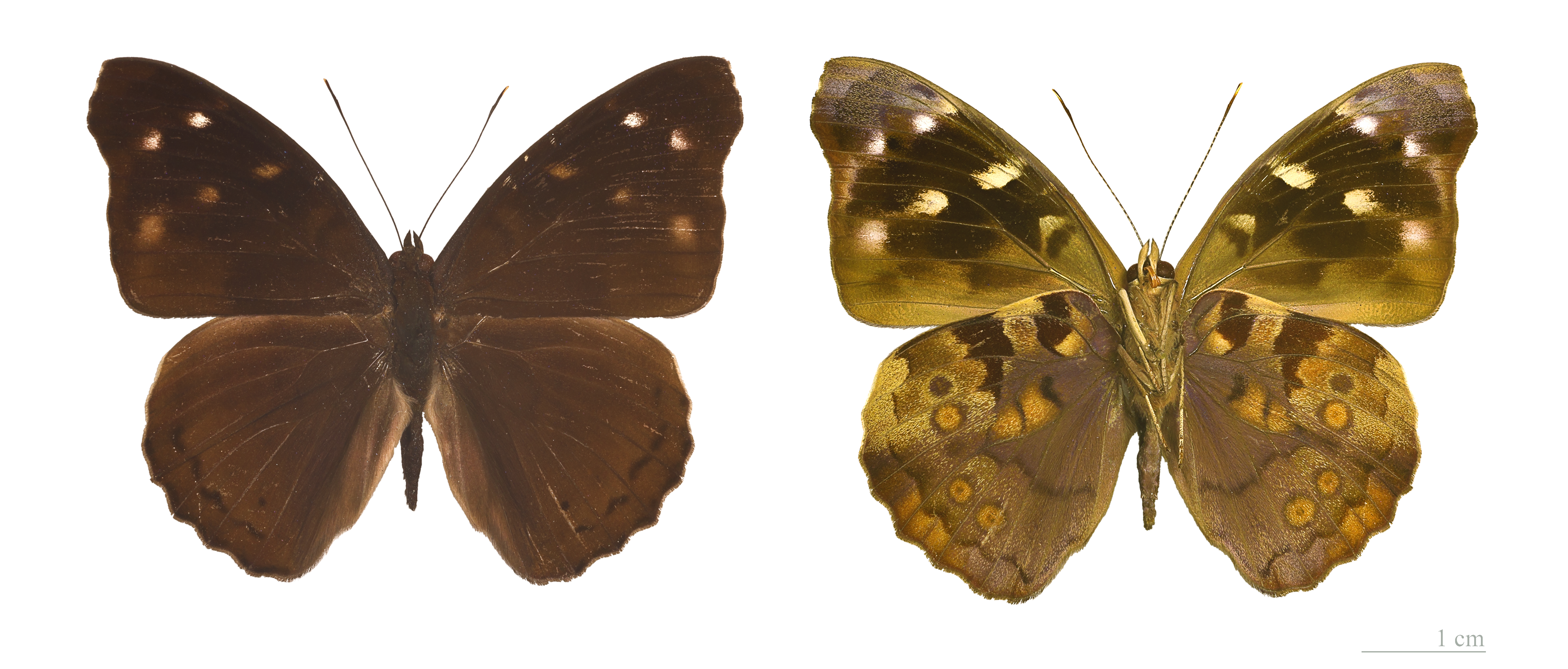 ♂ - Two views of same specimen Locality: Caranavi Province, Bolivia